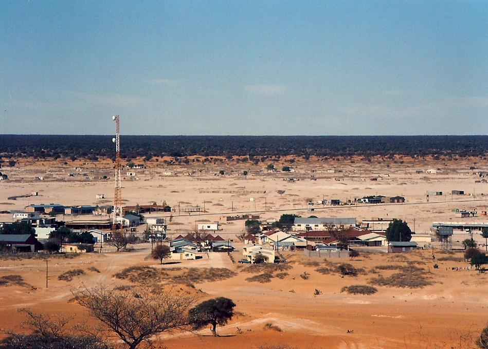 The town of Tshabong, the administrative centre of Kgalagadi District, in the Kalahari Desert, Botswana. Although this is mid-winter – the dry season – there is still a fair amount of foliage outside the town, beyond the immediate grazing range of goats and camels. The mast is probably a microwave transmitter, linked to Botswana Telecom's landline network (no mobile phones in Botswana in 1995!). Taken in mid-1995 on film.